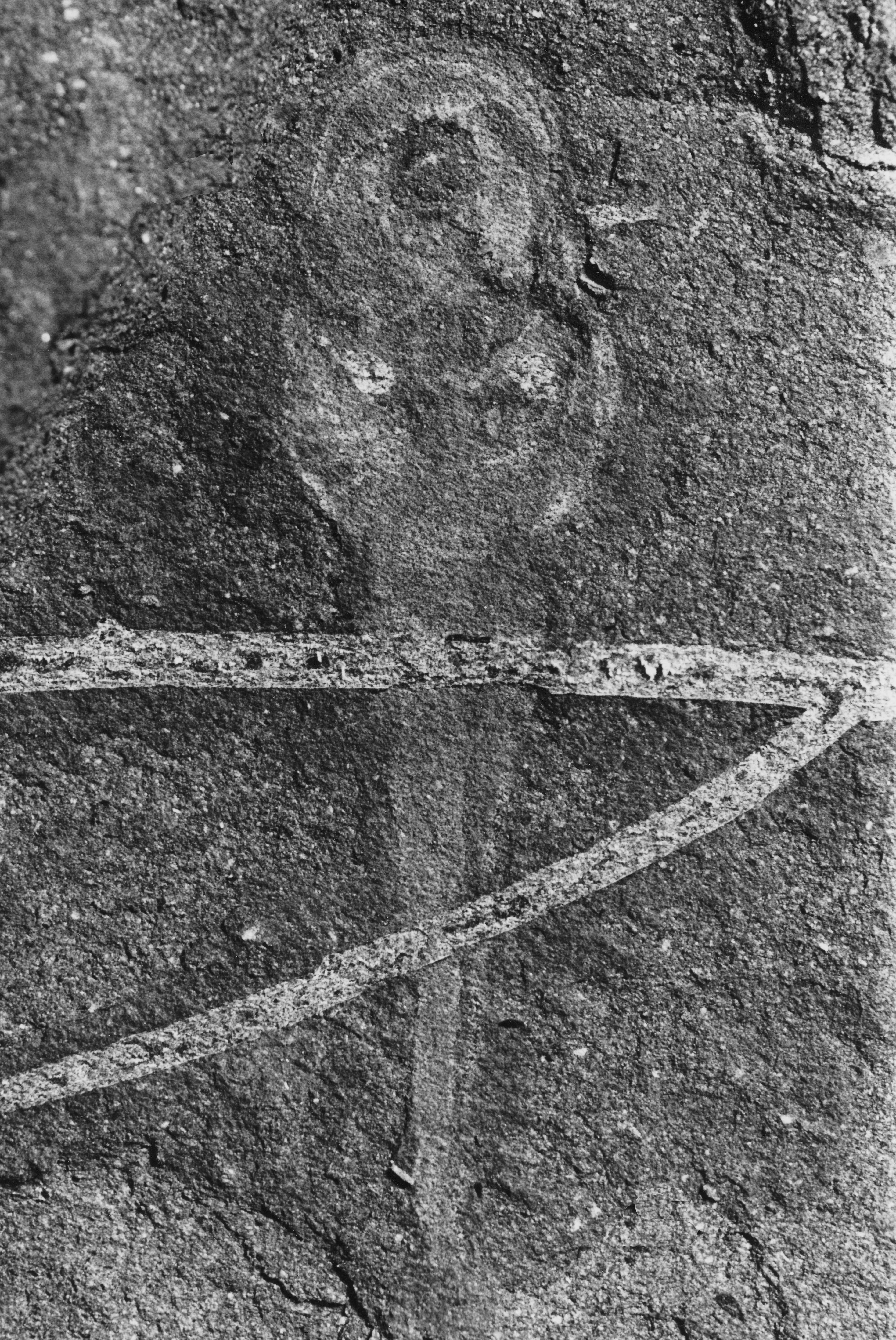 Slab and counterslab of Priscomyzon riniensis from Waterloo Farm near Grahamstown